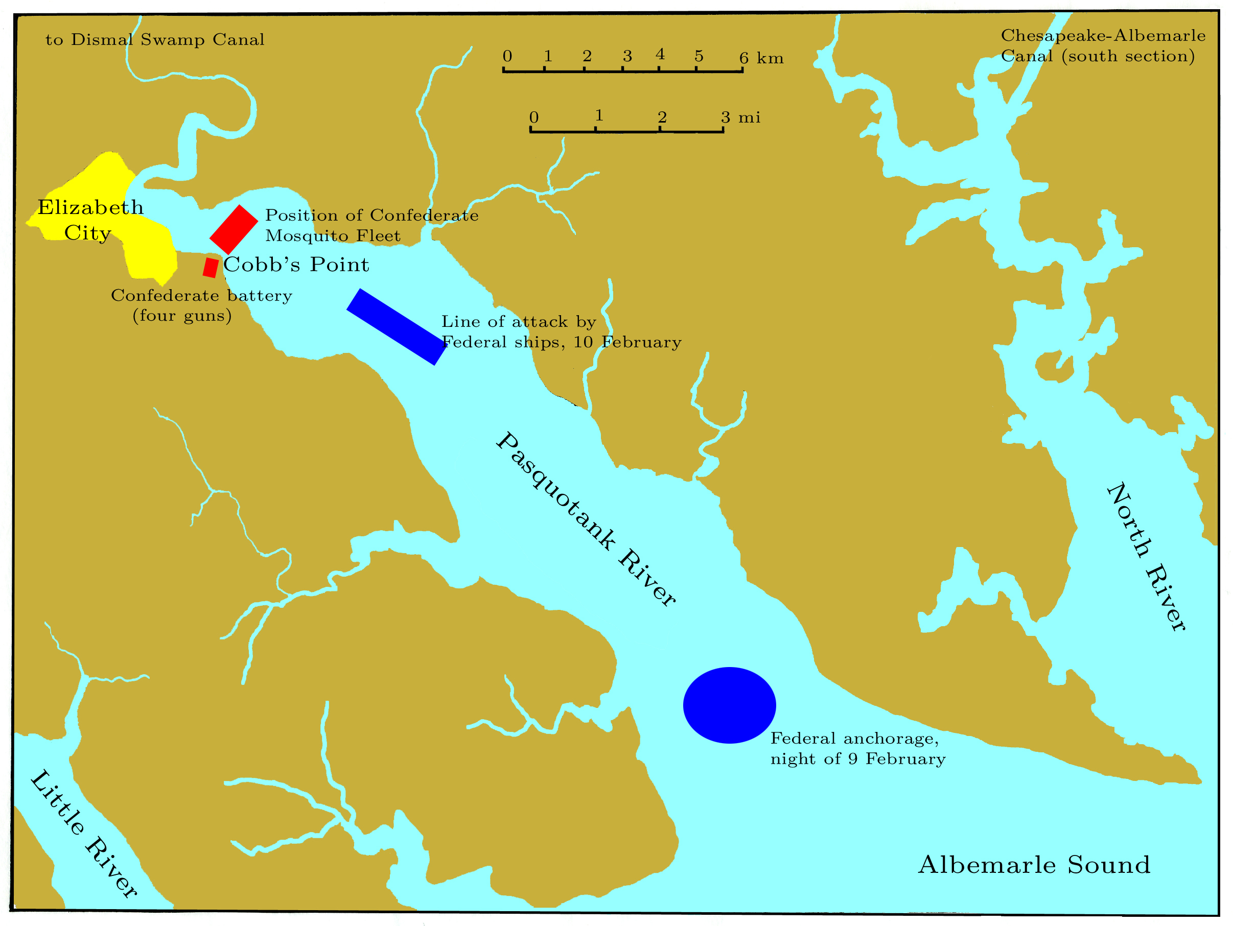 Chart of the Pasquotank River near Elizabeth City, NC, showing the Confederate defenses and the attacking Federal column of ships at the Battle of Elizabeth City, 10 February 1862.